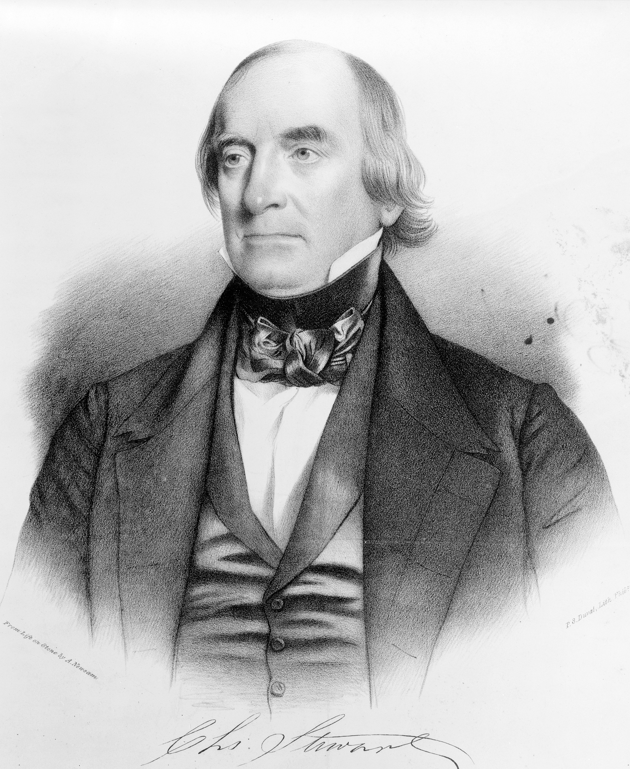 United States Navy Commodore Charles Stewart (1778–1869). Drawn from life on stone by Albert Newsam (1809-1864). Lithography by Peter S. Duval (1804-1886).